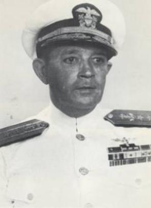 Rear Admiral Clifton Albert Frederick ("Ziggy") Sprague (January 8, 1896 – April 11, 1955) was a World War II-era officer in the United States Navy.